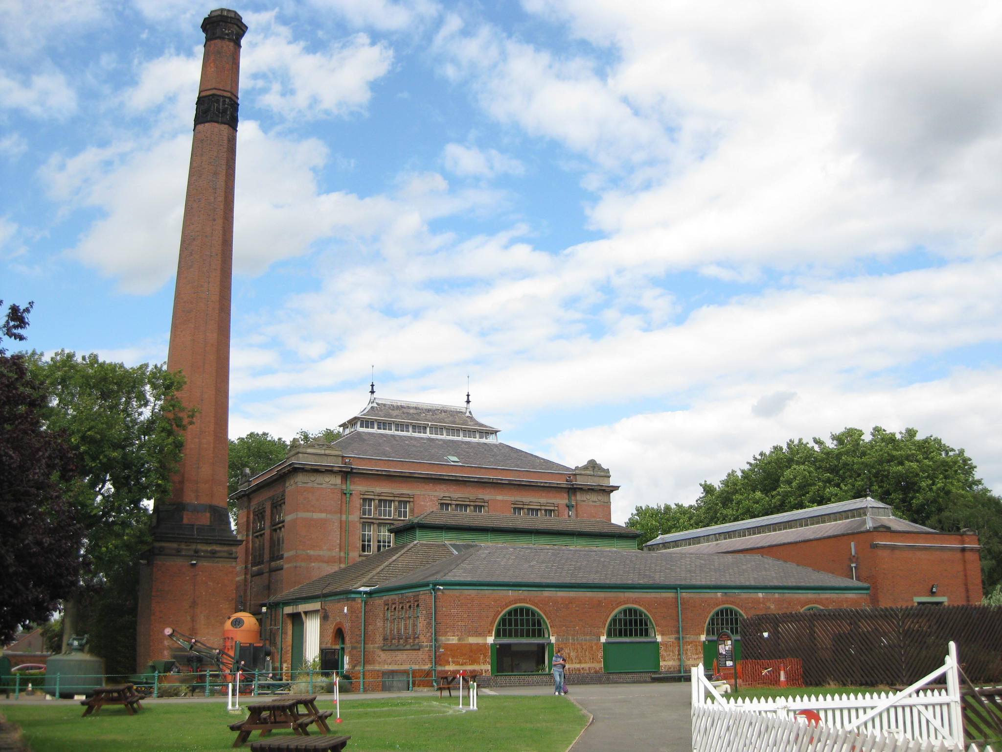 Abbey Pumping Station, an industrial museum in Leicester. Main buildings viewed from the Southwest. Former sewag pumping station. Built 1891. Museum from 1972.